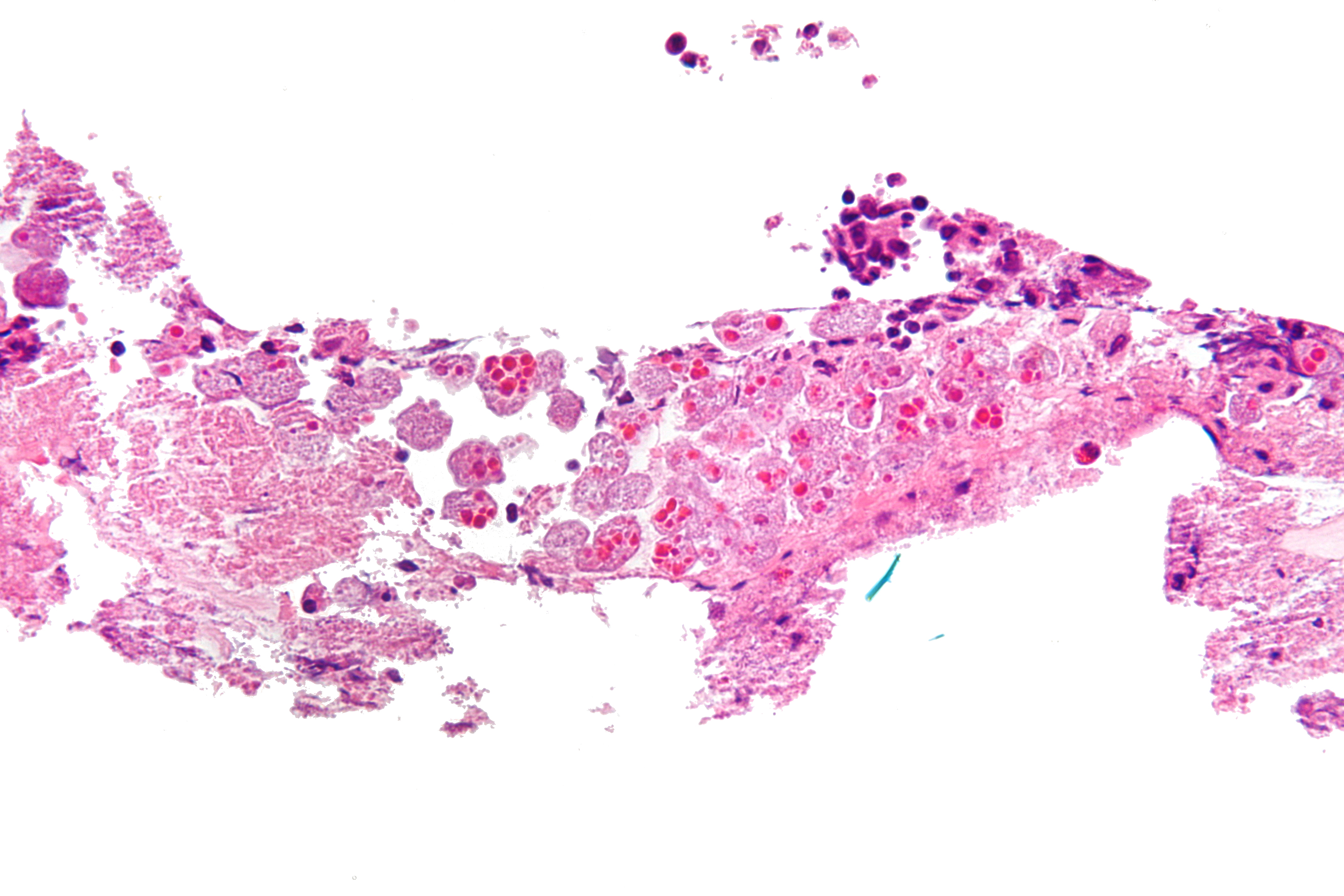 Very high magnification micrograph of amebiasis. Colonic biopsy. H&E stain. Related images High mag.